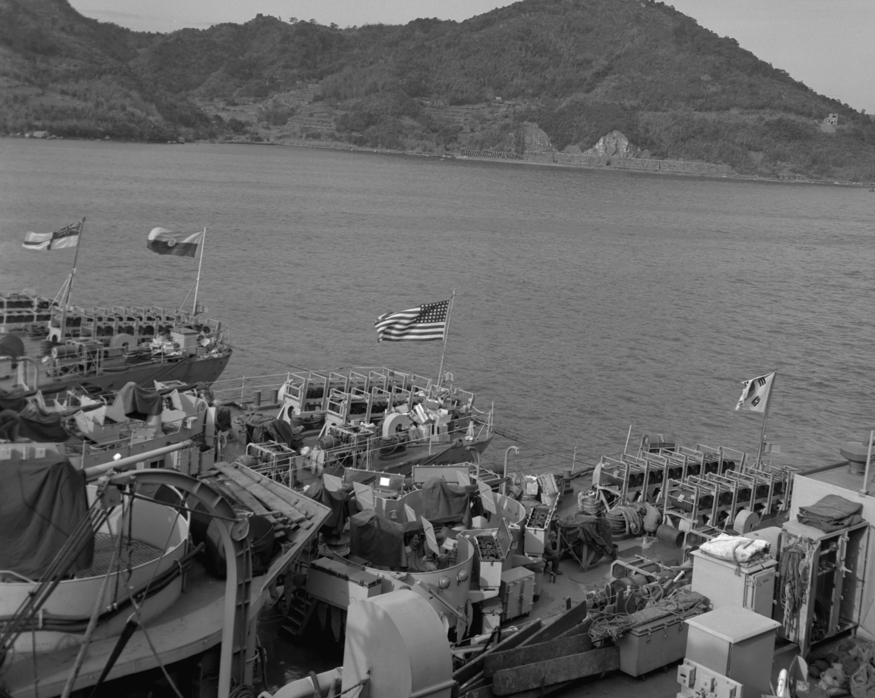 Ships from four nations are docked along side the U.S. Navy repair ship USS Jason (ARH-1) at the Han Estuary in South Korea on 16 January 1952. The Jason was the flagship of Service Squadron Three which supplied mobile logistic support for United Nations’ naval units. The ships visible are: (L-R) HMAS Murchison (F 442), an Australian Bay-class frigate; Almirante Padilla (FG 11), a Colombian Tacoma-class frigate (ex USS Groton (PF-29)); USS Gloucester (PF-22), a U.S. Tacoma-class frigate; Taedong (PF-63), a South Korean Tacoma-class frigate (ex-USS Tacoma (PF-3)).